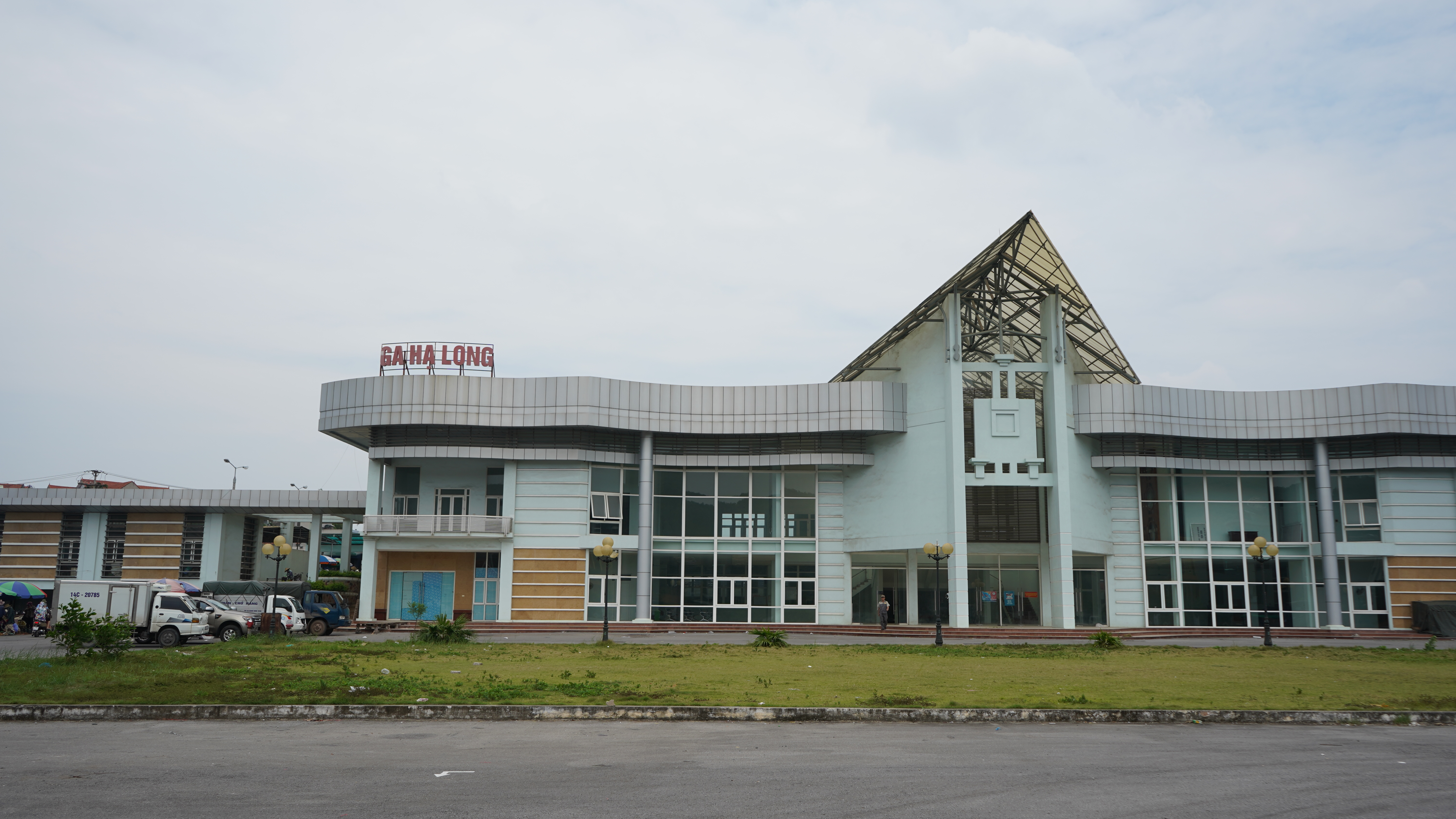 Ha Long Railway Station (Sep 16, 2018)